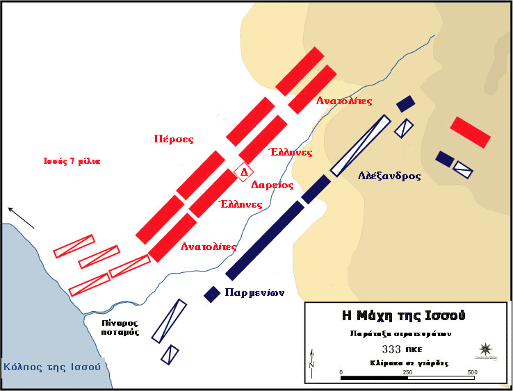 Linguistic manipulation of english map of initial front on Issus Battle